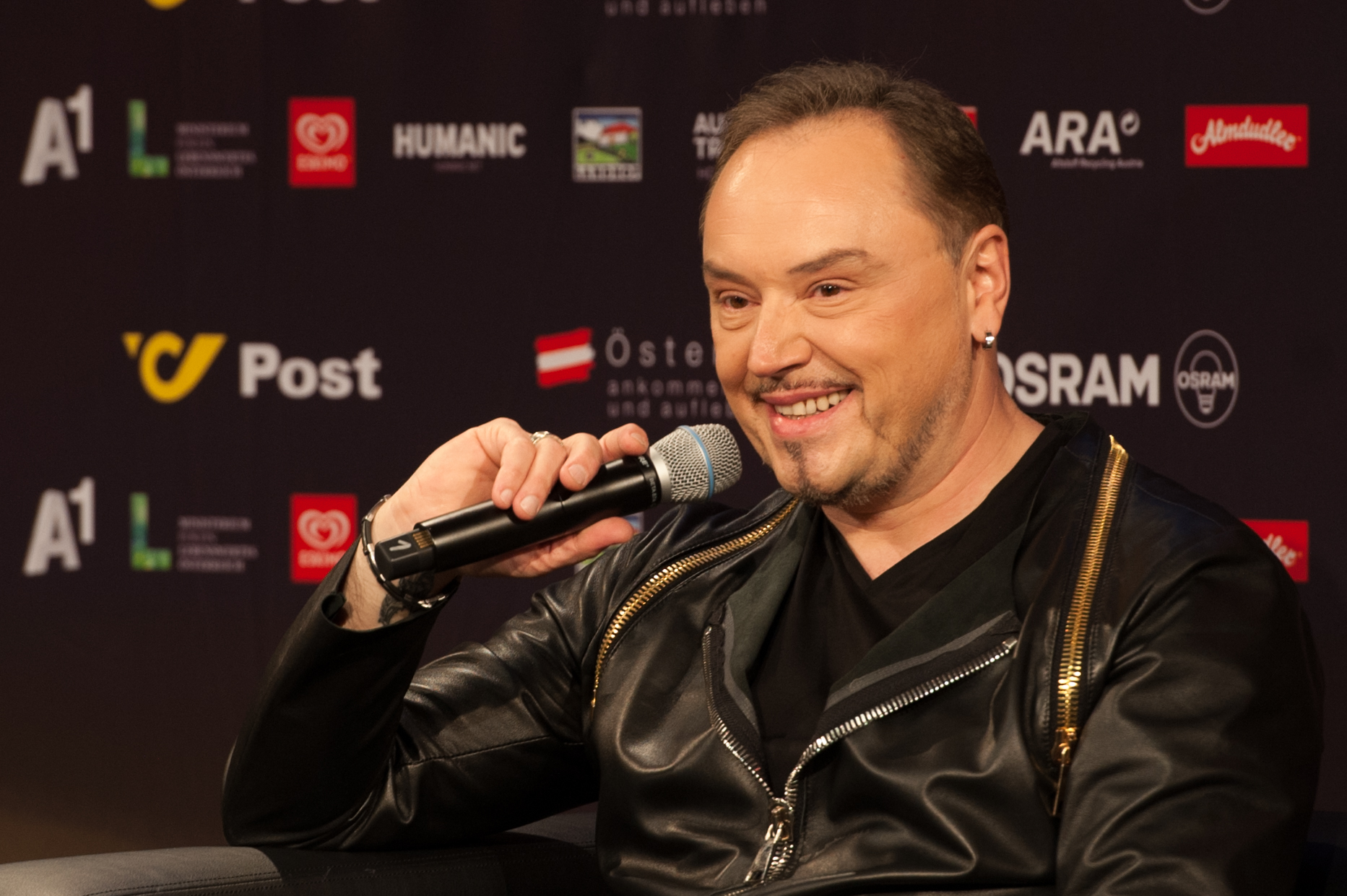 Eurovision Song Contest Vienna 2015: Knez